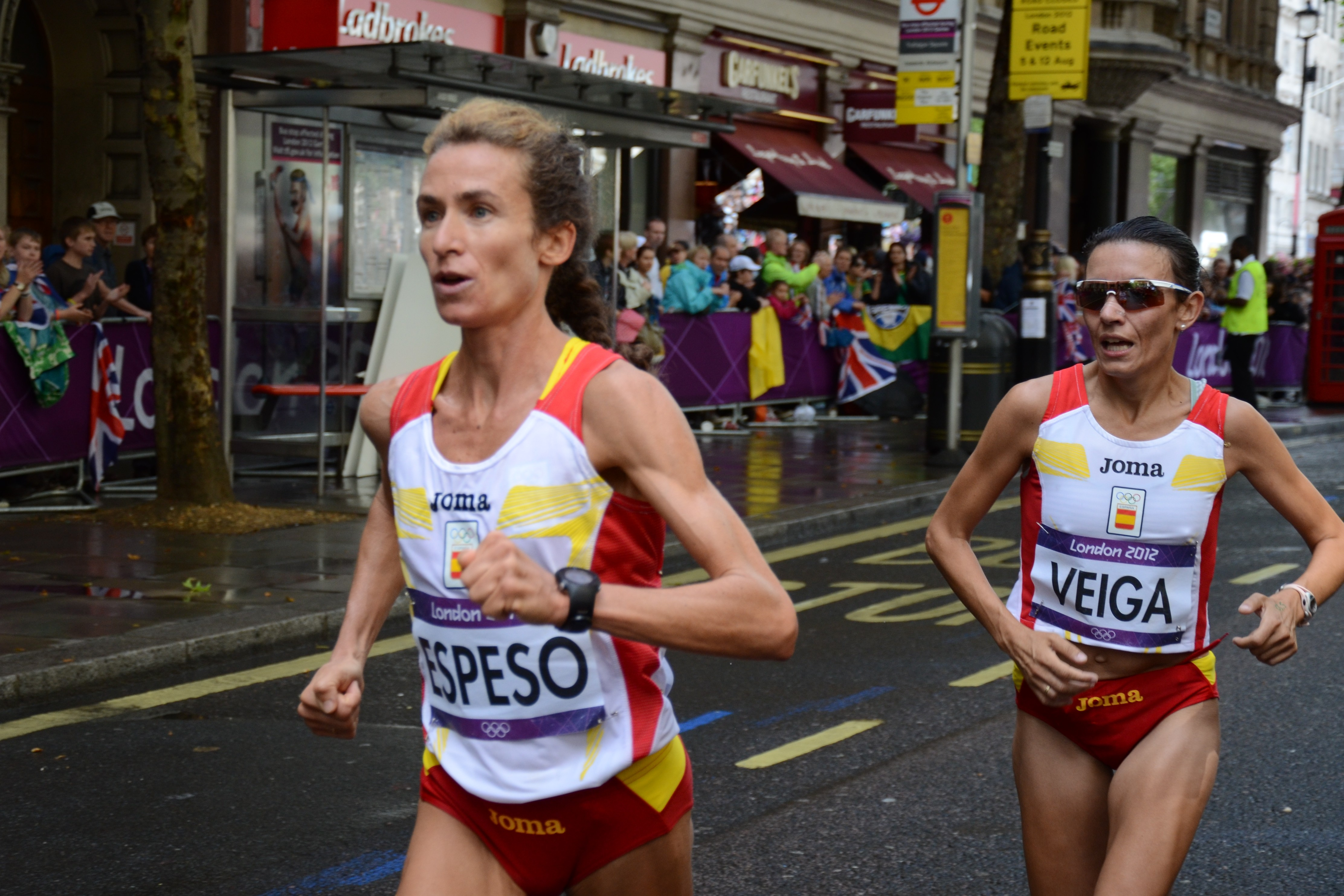 María Elena Espeso (left) and Vanessa Veiga (right) (both Spain) in the marathon (w) at the Olympic Games 2012